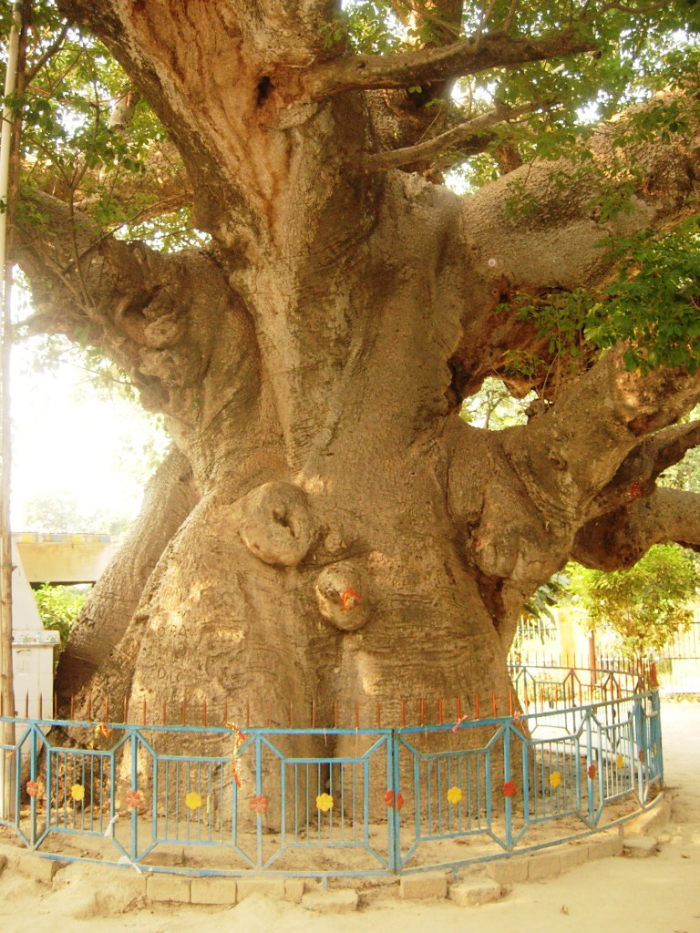 View of Parijat tree in the village of Kintoor, near Barabanki, Uttar Pradesh, India. Source Picture taken by Faiz Haider.